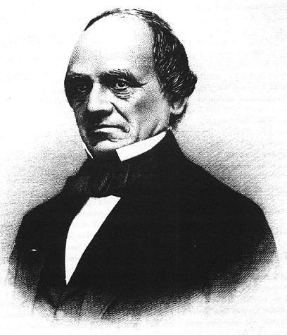 David L. Seymour, Congressman from New York.